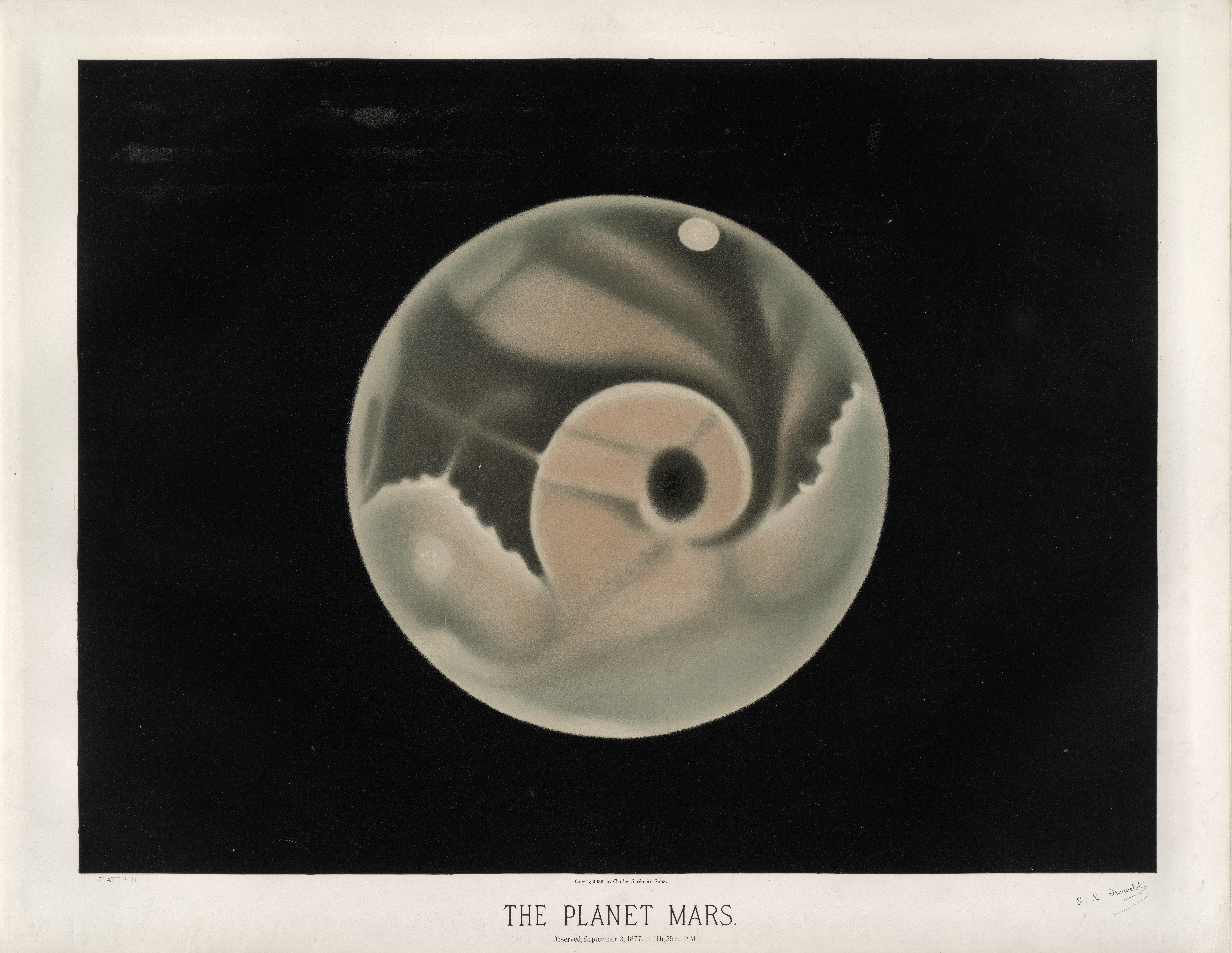 The planet Mars. Observed September 3, 1877, at 11h. 55m. P.M. (Plate VIII from The Trouvelot Astronomical Drawings 1881-1882) The drawing features are described in the following work: The Trouvelot astronomical drawings manual[1], New York: Charles Scribner's sons, 1882, page 64